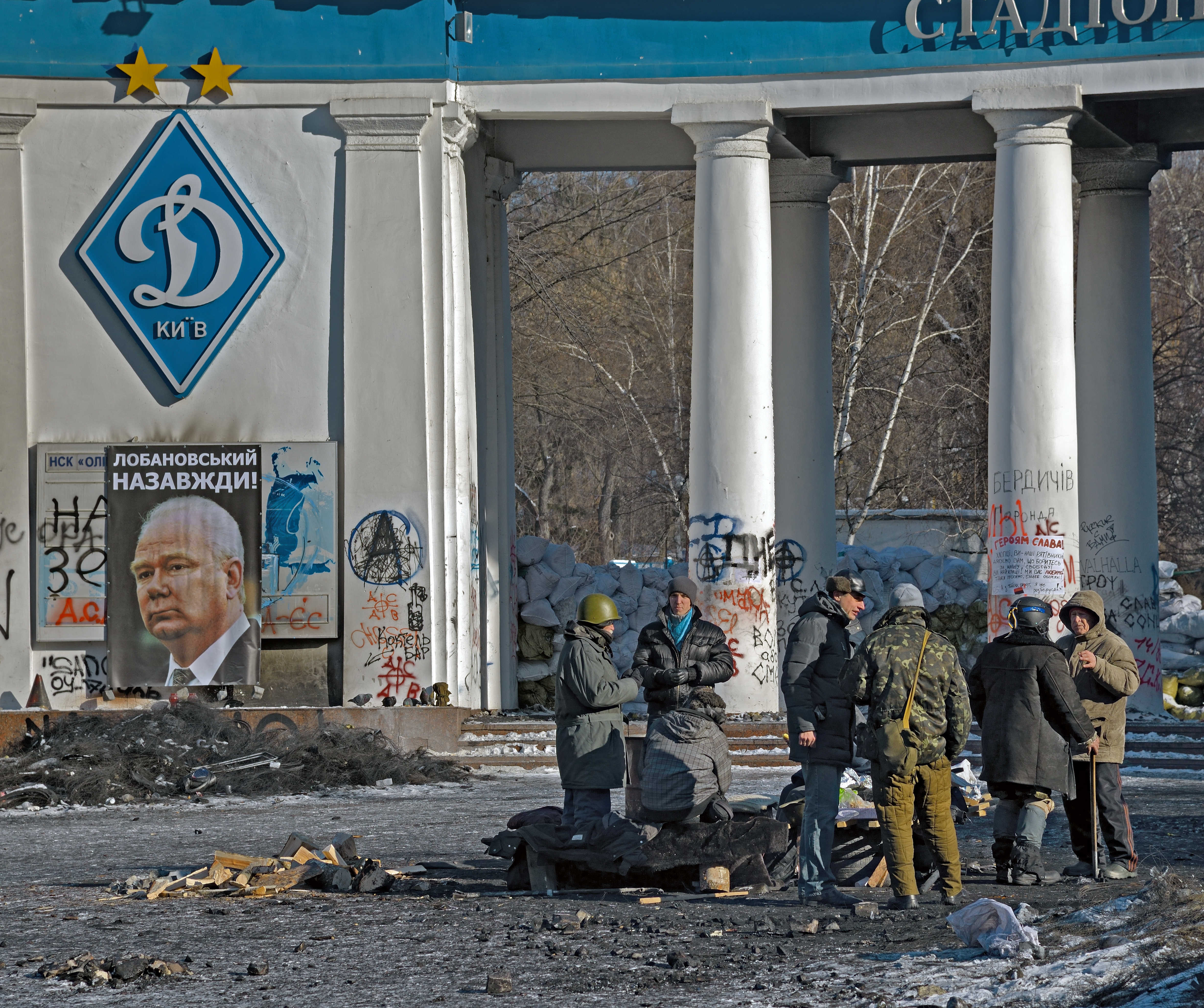 Euromaidan 2014 in Kyiv. Dynamo Kyiv